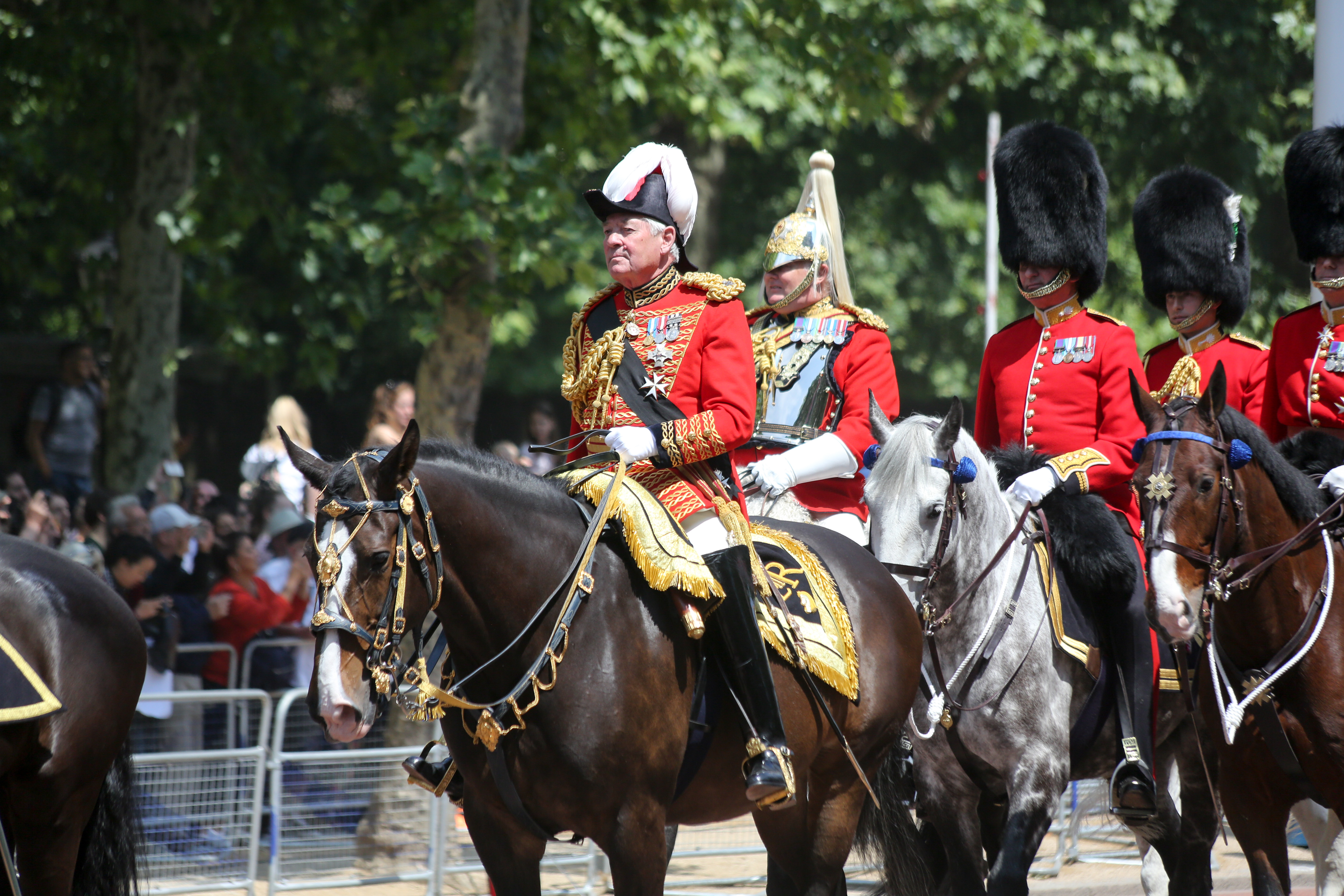 Master of the Horse Samuel Vestey, 3rd Baron Vestey followed by Regimental Adjutants of the Household Division at the rear of the sovereign procession.